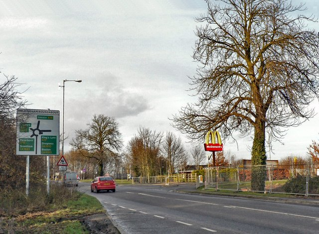 Approach to Holdingham Roundabout on the B1518 What roundabout on a trunk route can be without its MacDonald's or Travel Lodge? Both are here as is a service station. Change is afoot on this side of town too though and the roundabout is in the process of being upgraded as the area is being 'developed'.